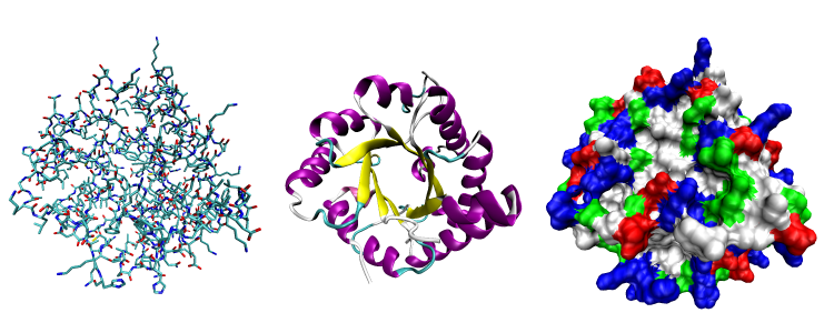 Three views of one monomer of the protein triose phosphate isomerase (PDB ID 1TIM). Left, an all-atom view colored by atom type; middle, a cartoon view colored by secondary structure; right, a solvent-accessible surface view colored by residue type (acidic residues red, basic residues blue, polar residues green, nonpolar residues white).